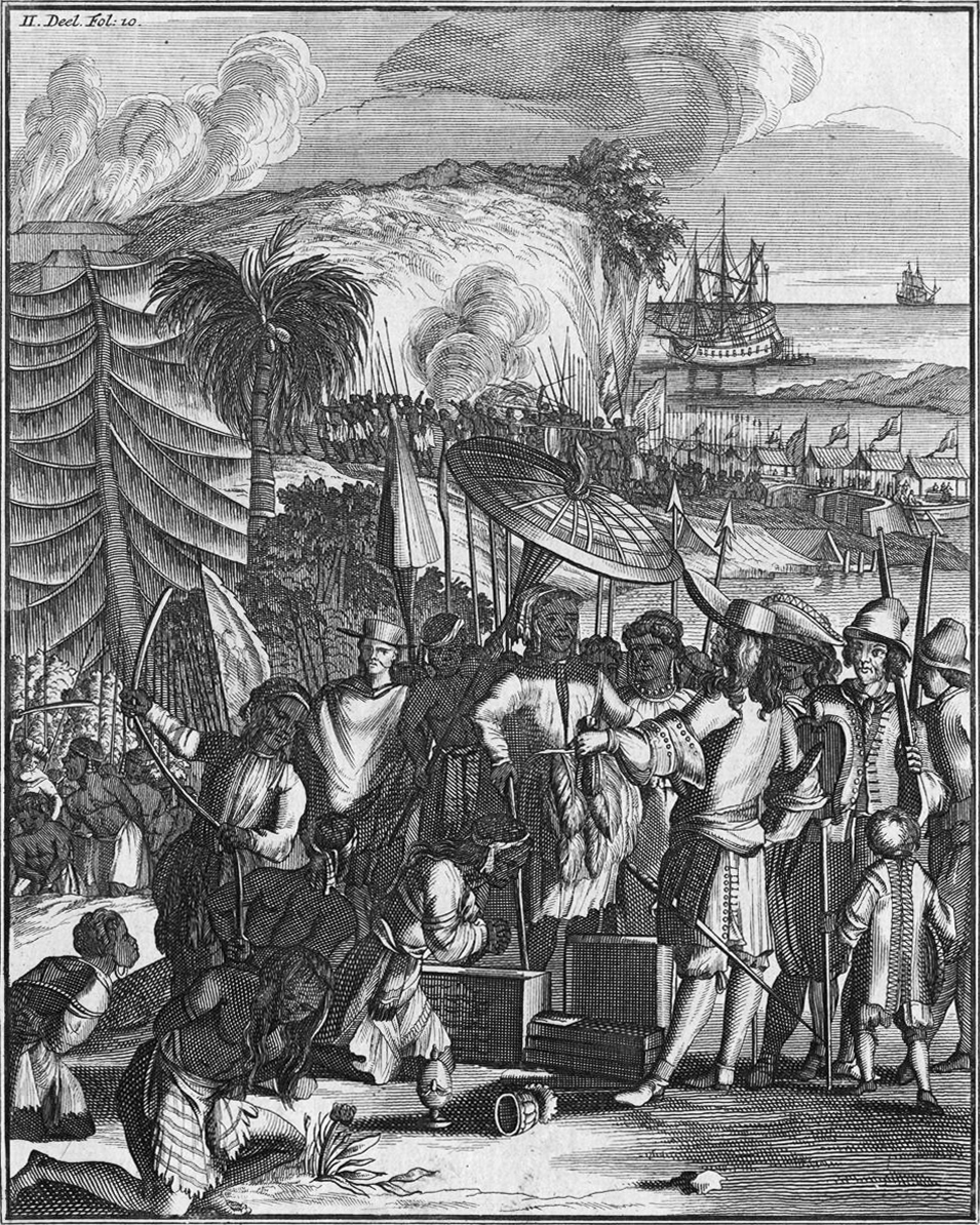 Natives of Arrakan sell slaves to the Dutch East India Company at Pipely/Baliapal (in Orissa), Jan. 1663; a view from an account of the experiences of a Dutch East India Company surgeon on an expedition 1658-65, 'Wouter Schouten's travels into the East Indies', 2nd ed., Amsterdam, 1708